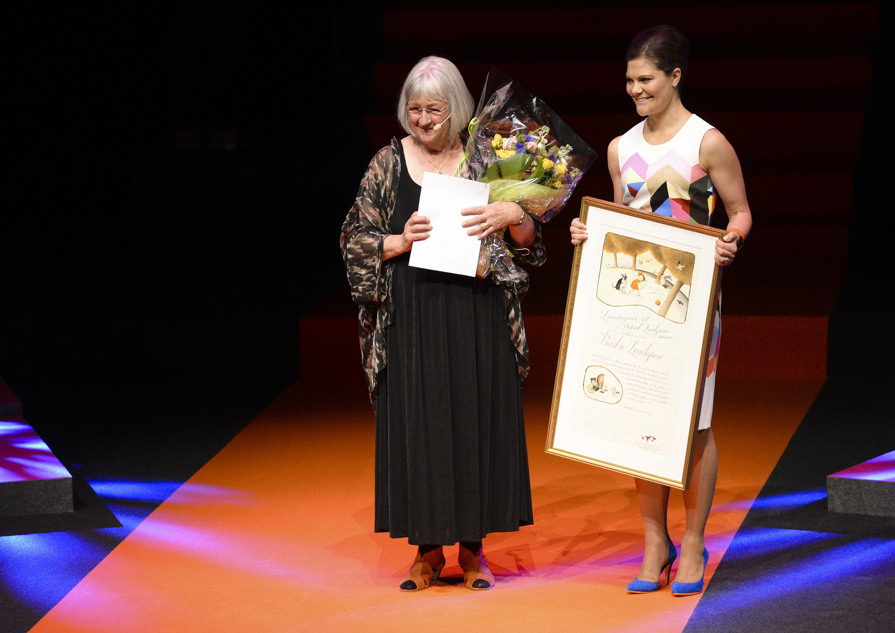 Crown Princess Victoria of Sweden presents the 2014 Astrid Lindgren Memorial Award (ALMA) to author Barbro Lindgren.